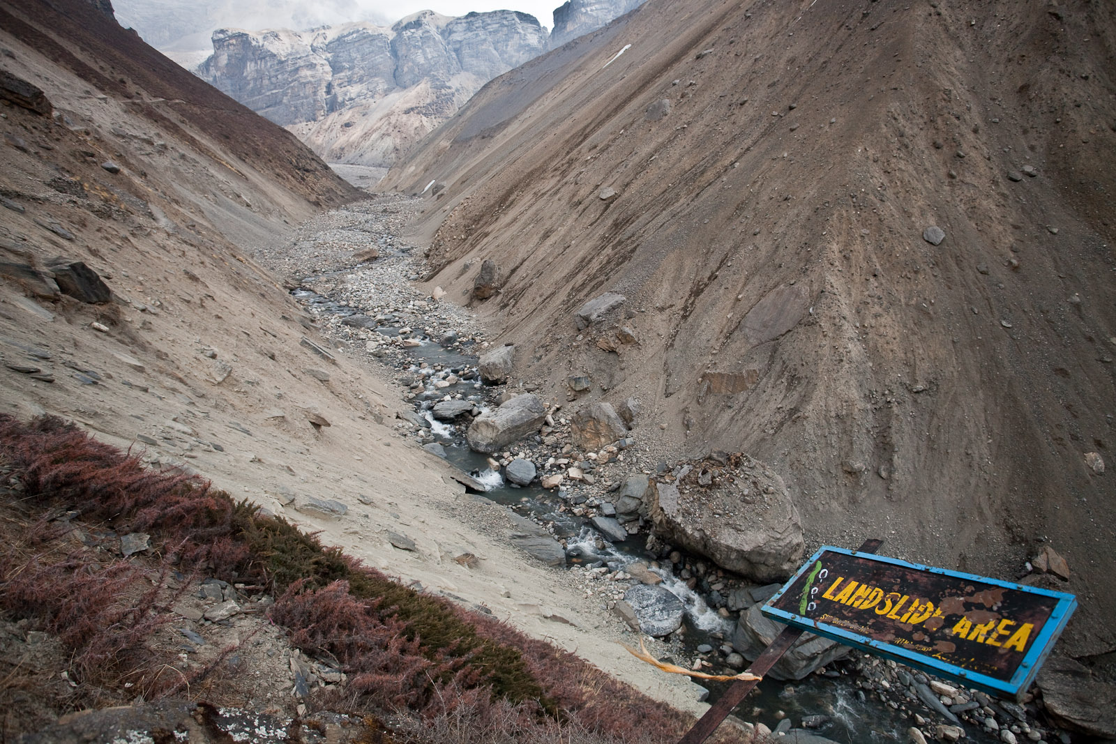 Landslide Area (and that's a long way down)